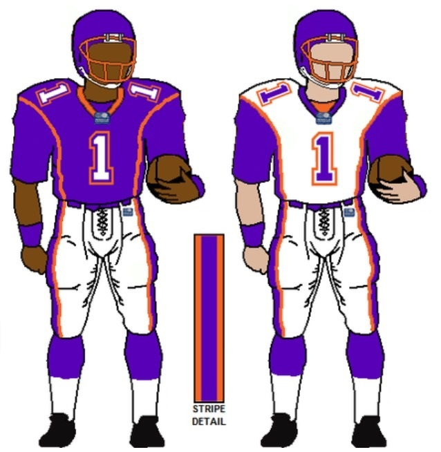 Uniform of the American football team from Frankfurt